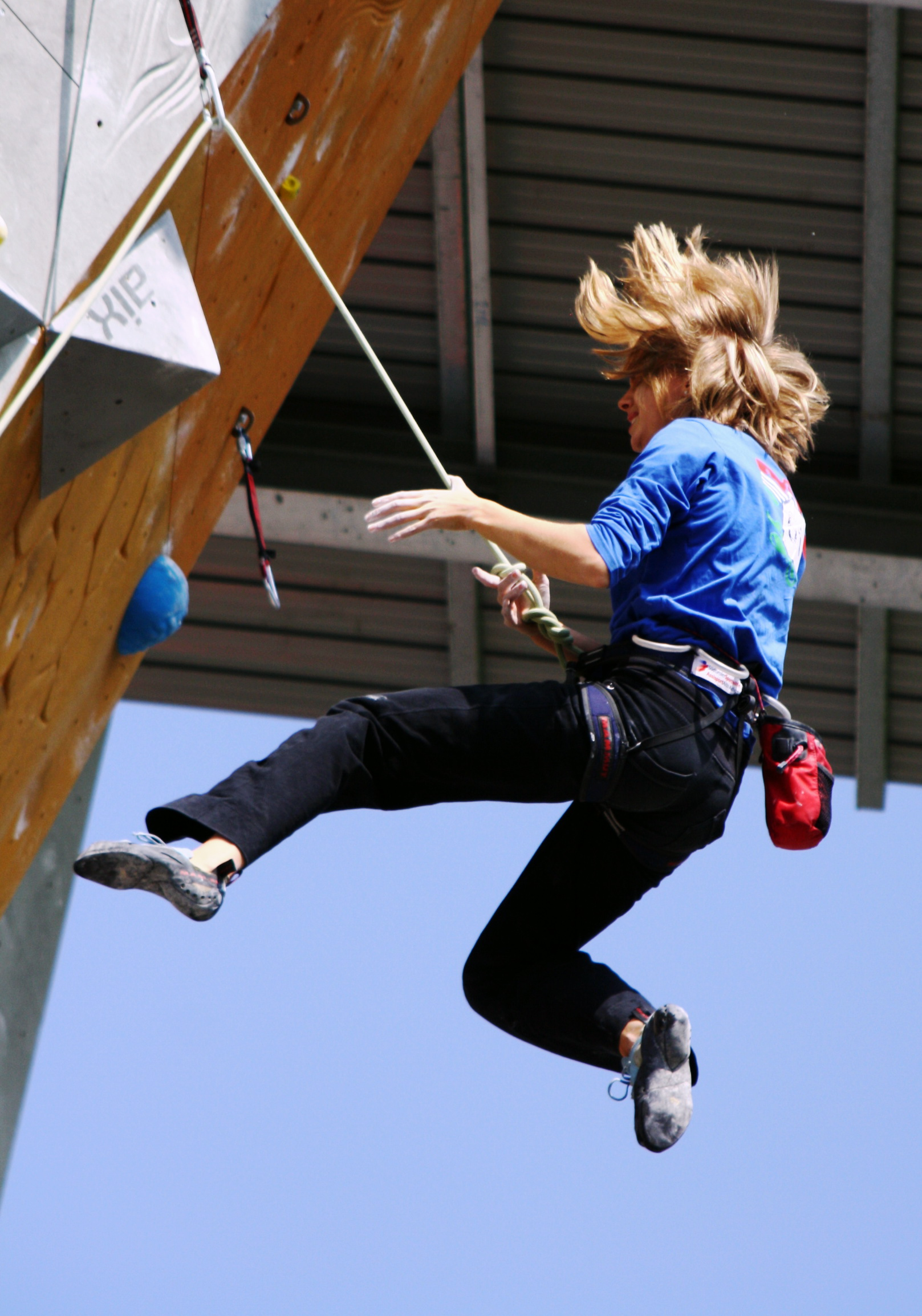 Alexandra Ladurner at IFSC European Youth Series Munich (GER) 2009